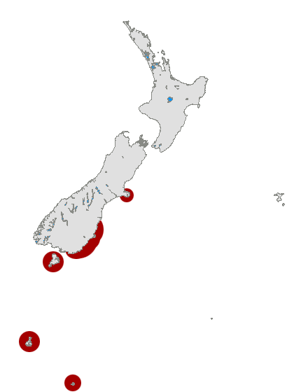 Red: The distribution of the Yellow-eyed Penguin, Megadyptes antipodes, endemic to New Zealand. North to South: Banks Peninsula, Otago Coast, Stewart Island, Auckland Islands, Campbell Islands.